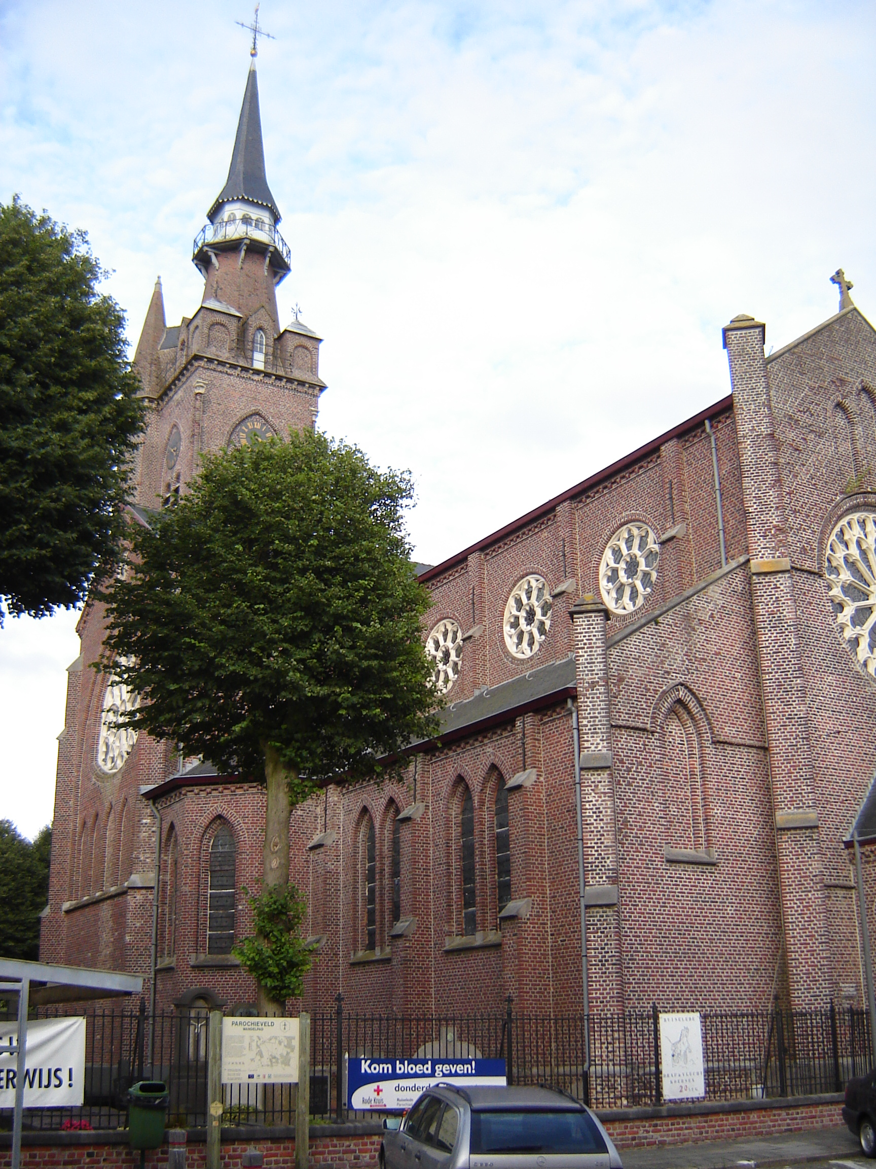 Church of Saint-Charles in Doomkerke. Doomkerke, Ruiselede, West Flanders, Belgium.